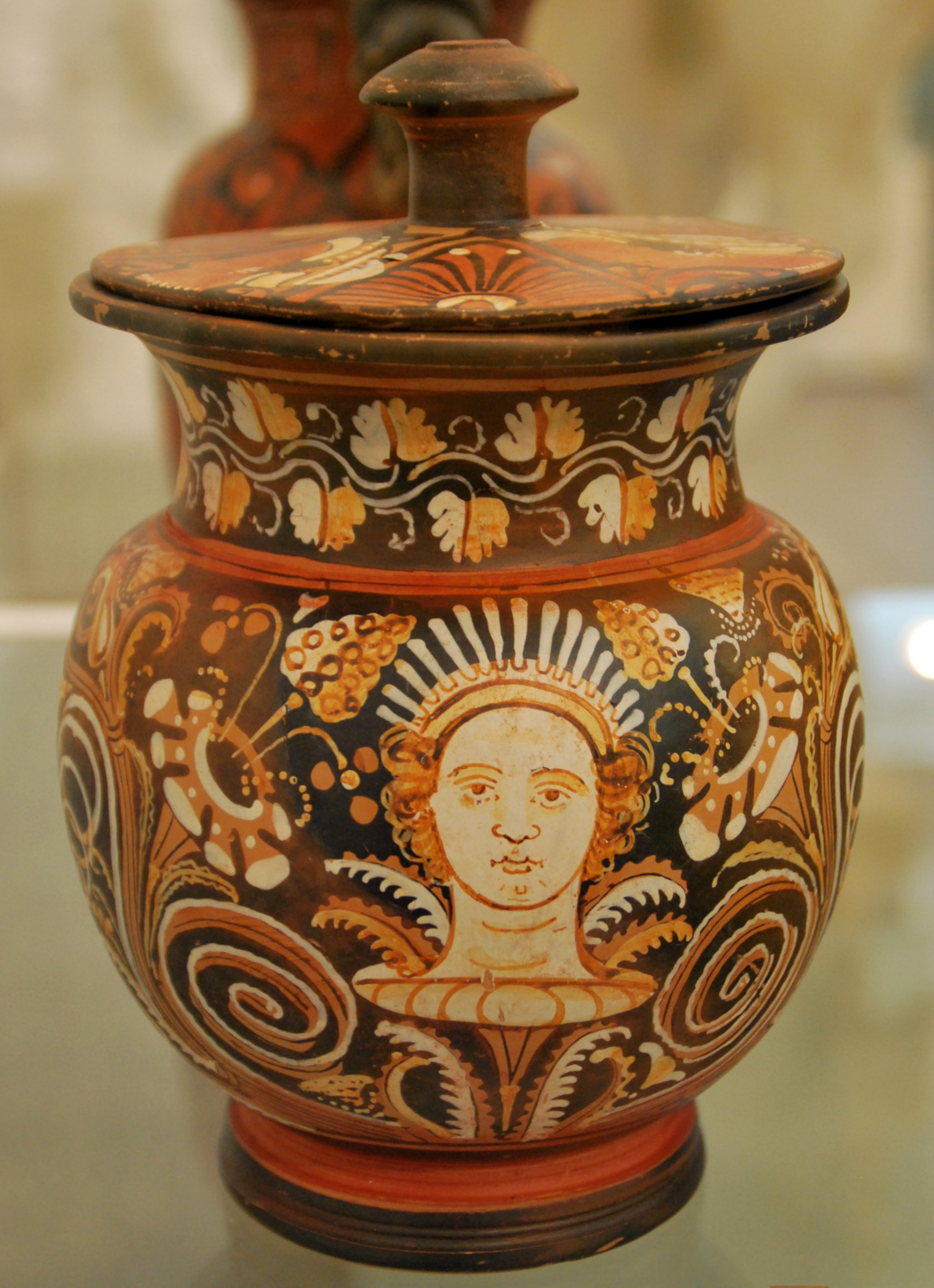 Apulian red-figure Oinochoe with Lid by the Ganymed Painter (Oinochoe) und Armidale Painter (Lid): head in a calyx between tendrils. About 340/10 BC. Antikensammlung Kiel, inventory number B 572.